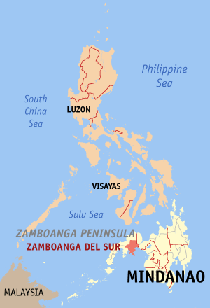 Map of the Philippines showing the location of Zamboanga del Sur